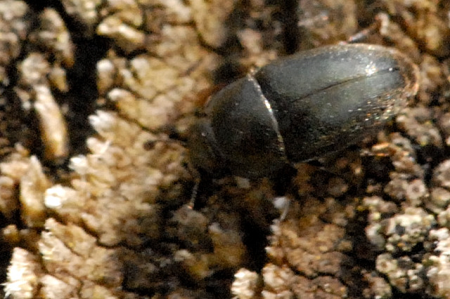 Cryptophagus corticinus from Commanster, Belgian High Ardennes .